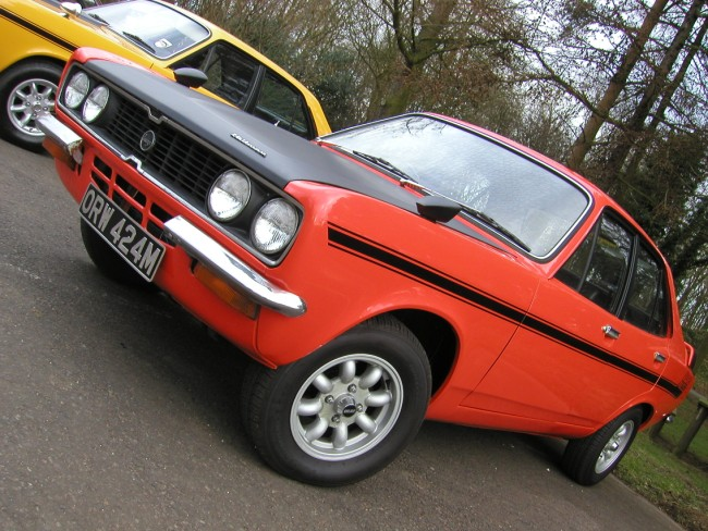 1972 Hillman Avenger Tiger Mk 2 in Wardance (Image courtesy of Julian Little